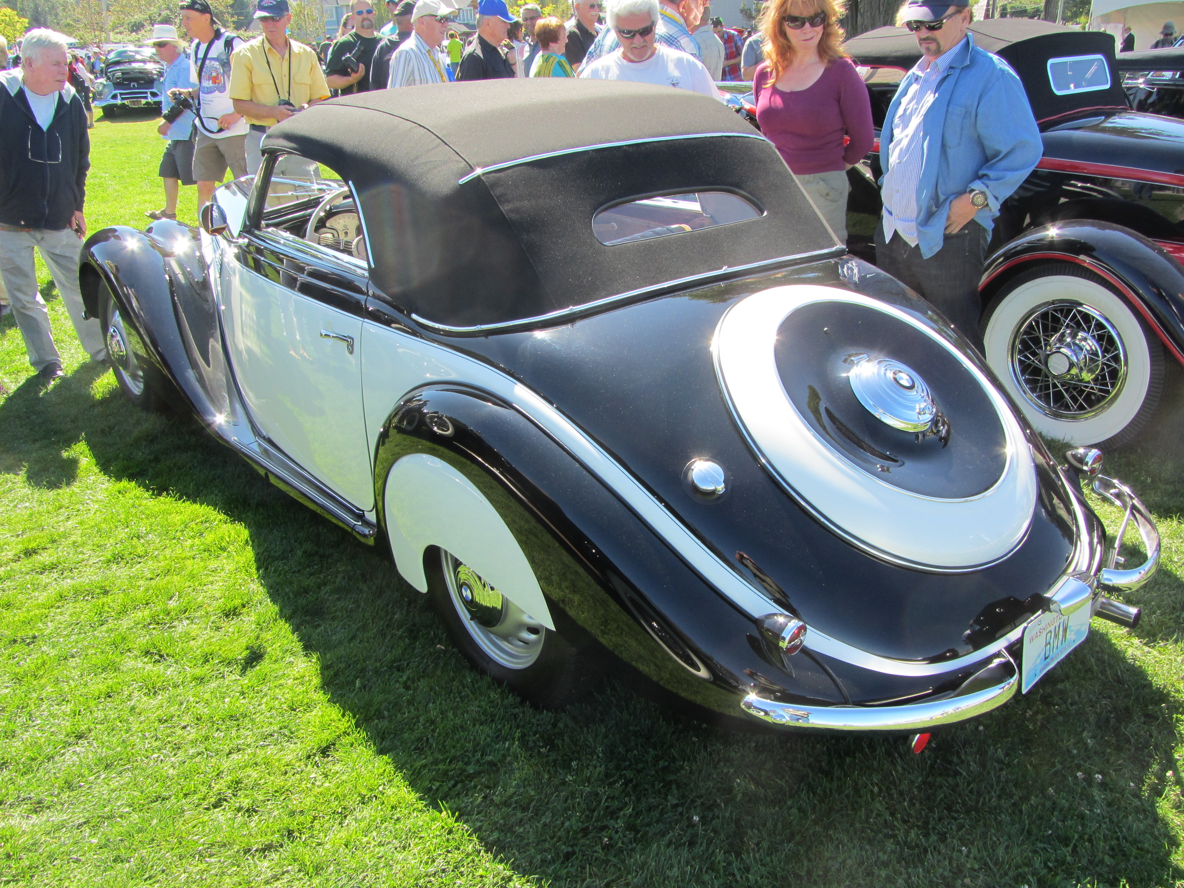 Crescent Beach Concours d'Elegance, Blackie Spit, Surrey, British Columbia.